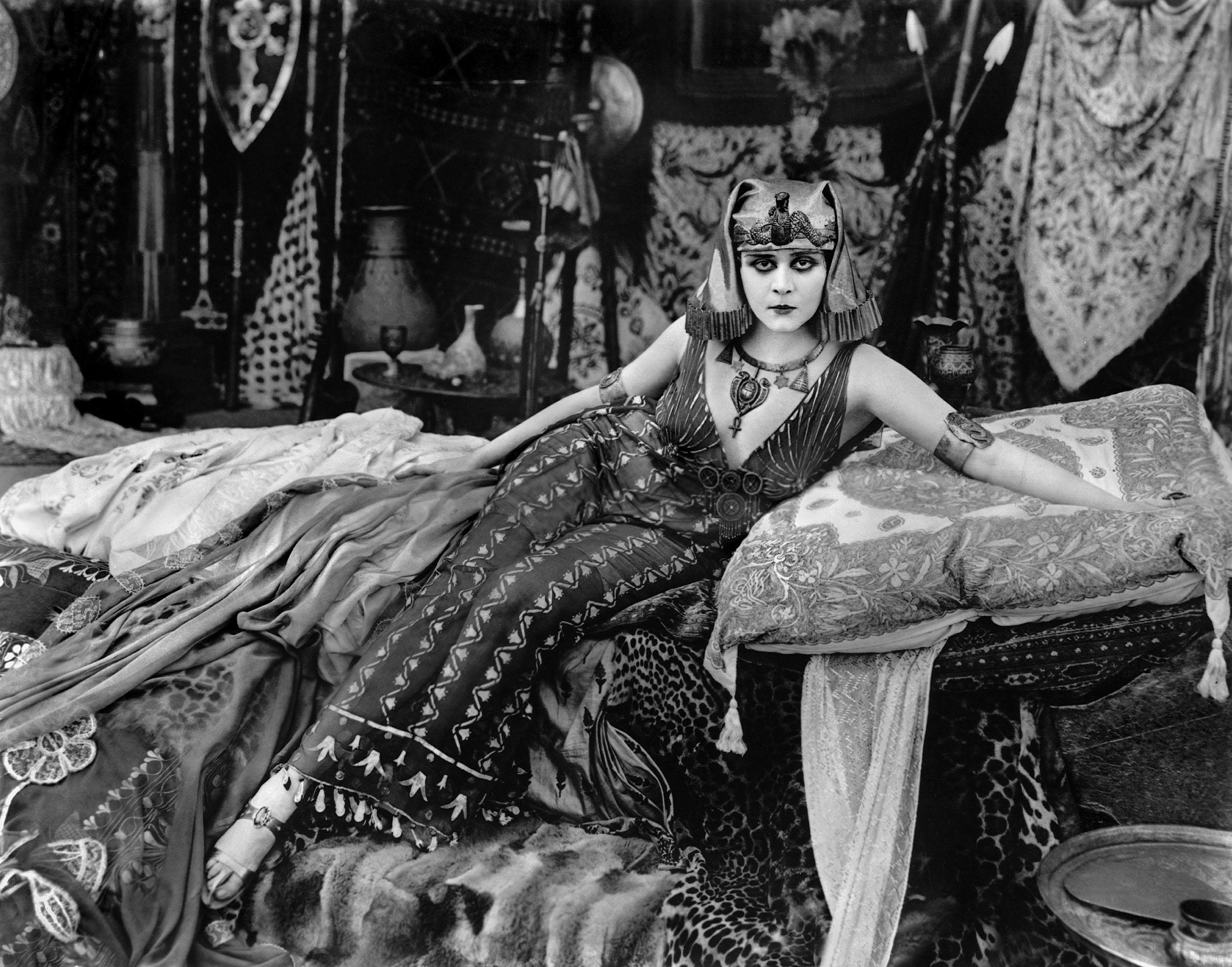 Scene from Cleopatra, 1917